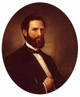 Horace Austin, 1873